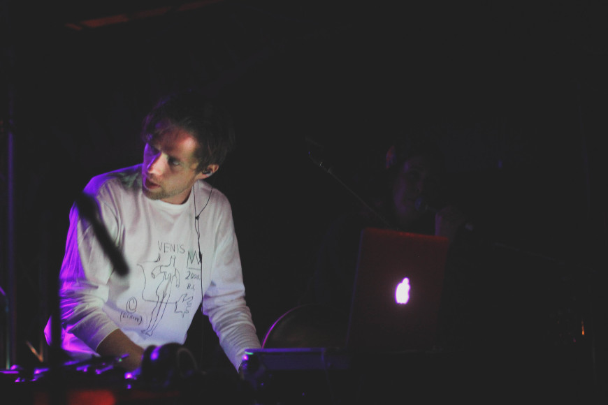 Tobias Wilner captured in New York City performing at Baby's All Right 2015